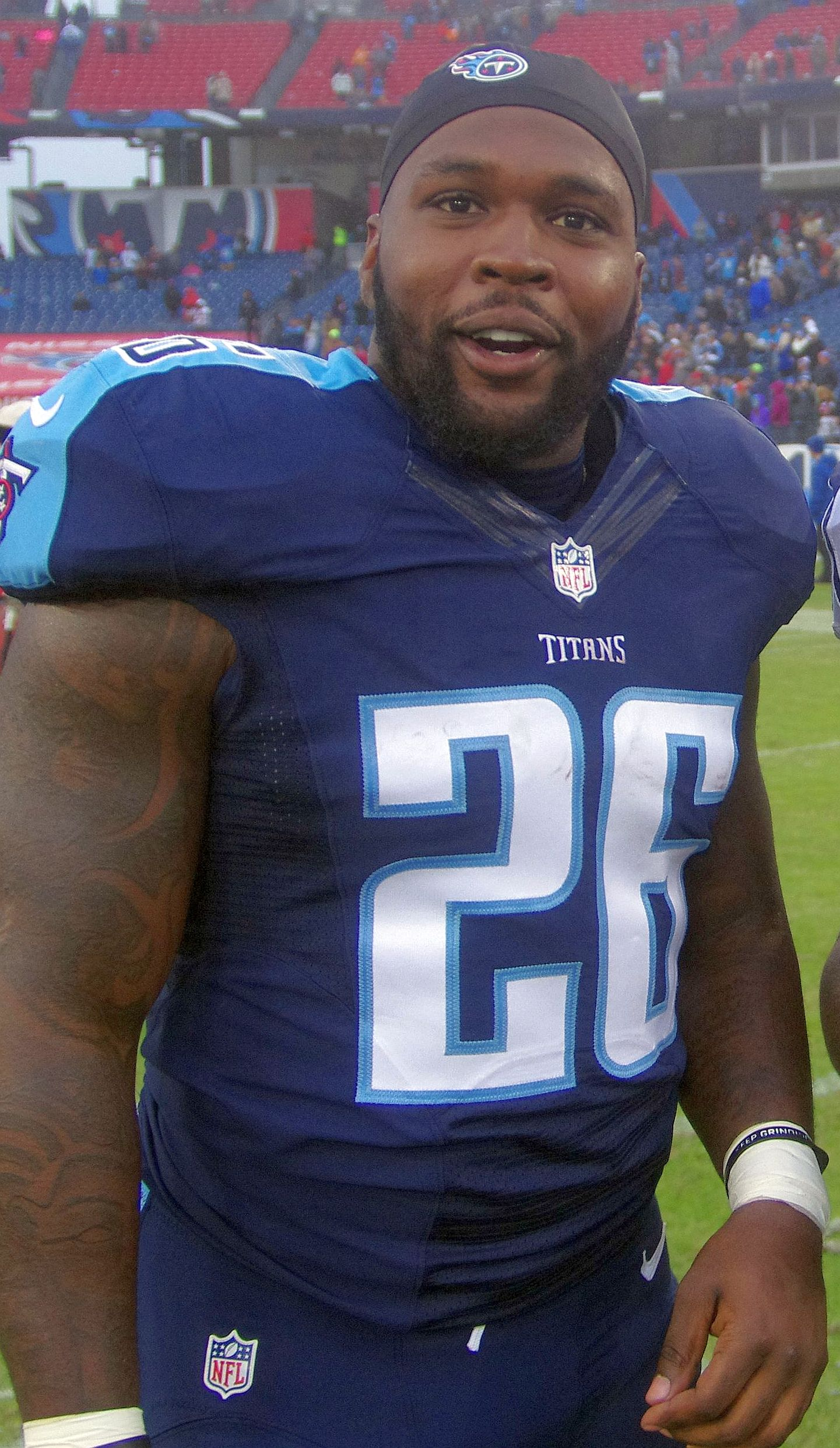 Antonio Andrews, Titans running back, after game vs. Houston Texans